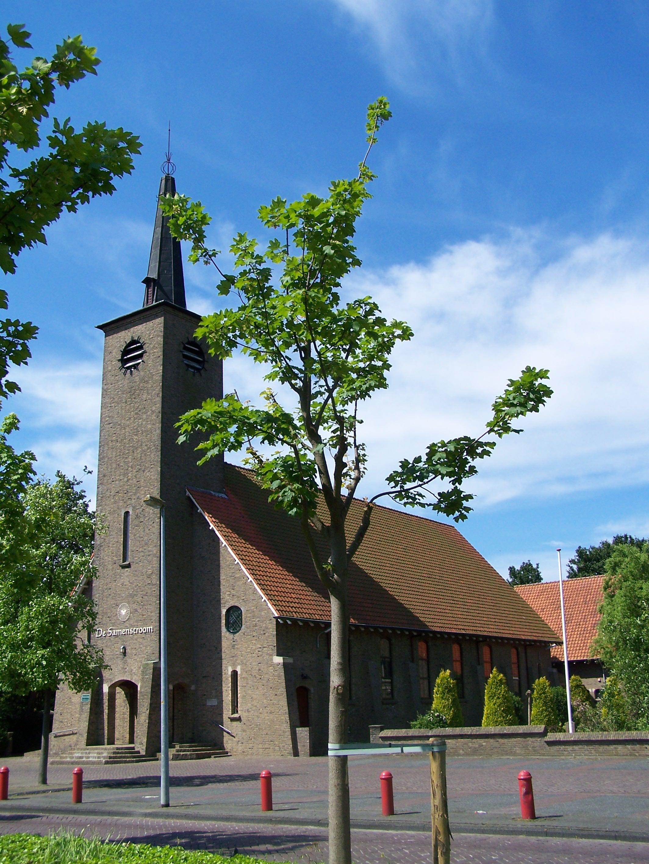 Protestant Reformed Church "De Samenstroom" in Wieringerwerf at the Terpstraat 40. By E.J. Rotshuizen (Bureau BUVANI) architect in 1939.